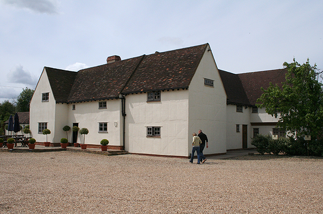 The Plough pub, Kimbolton Road, Bolnhurst, Bedfordshire